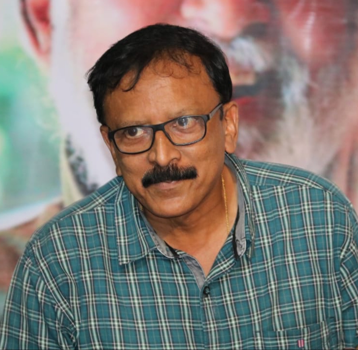 Harikumar sound recordistAfrikaans: ഹരികുമാർ